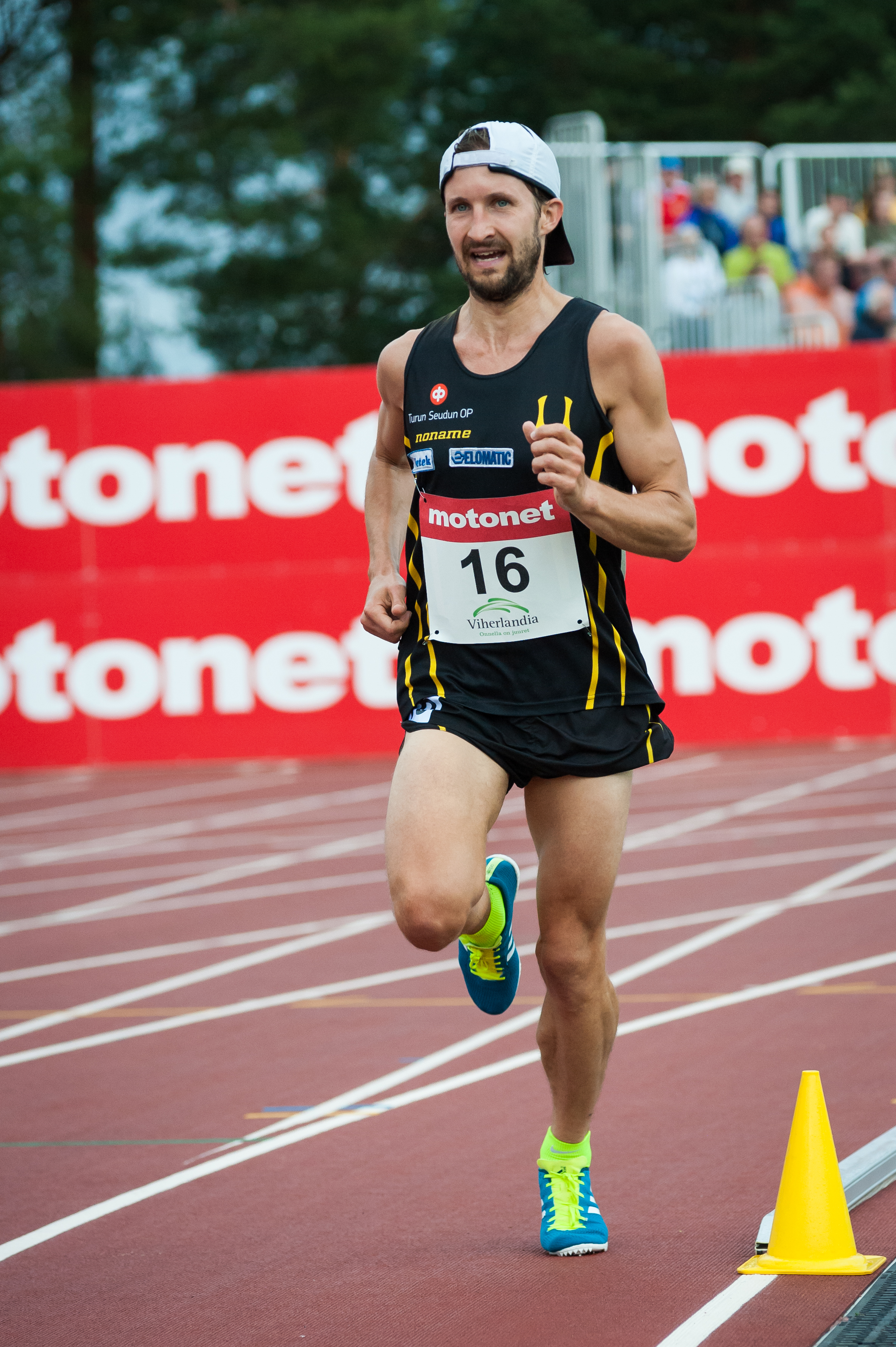 Men's 5000 m competition at the 2018 Kalevan Kisat, the Finnish championships in athletics, in Jyväskylä, Finland.